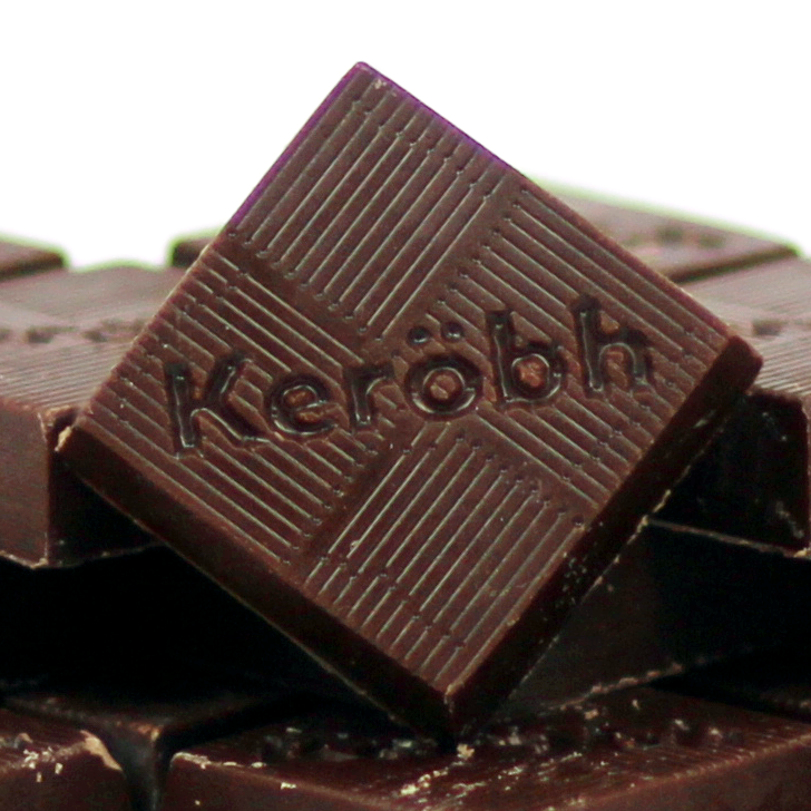 Carob Confections